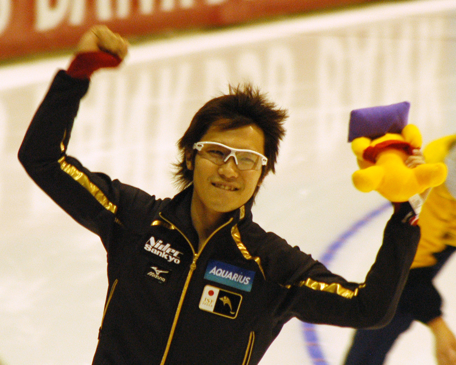 Joji Kato (JPN) after winning a 500 meters world cup speedskating race in Heerenveen, the Netherlands.